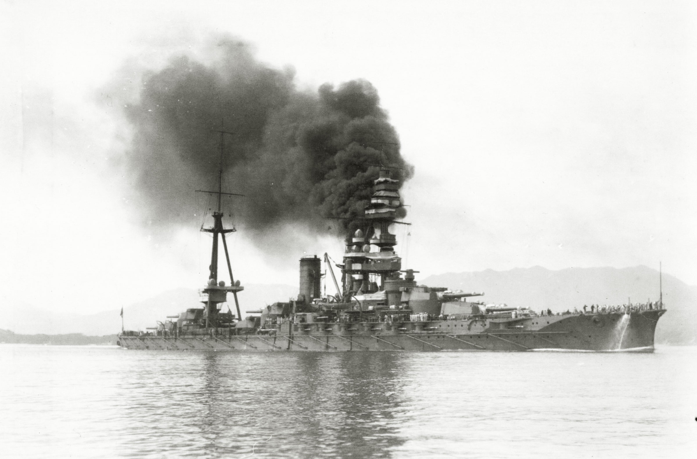 Ise underway in Hiroshima Port on 1927